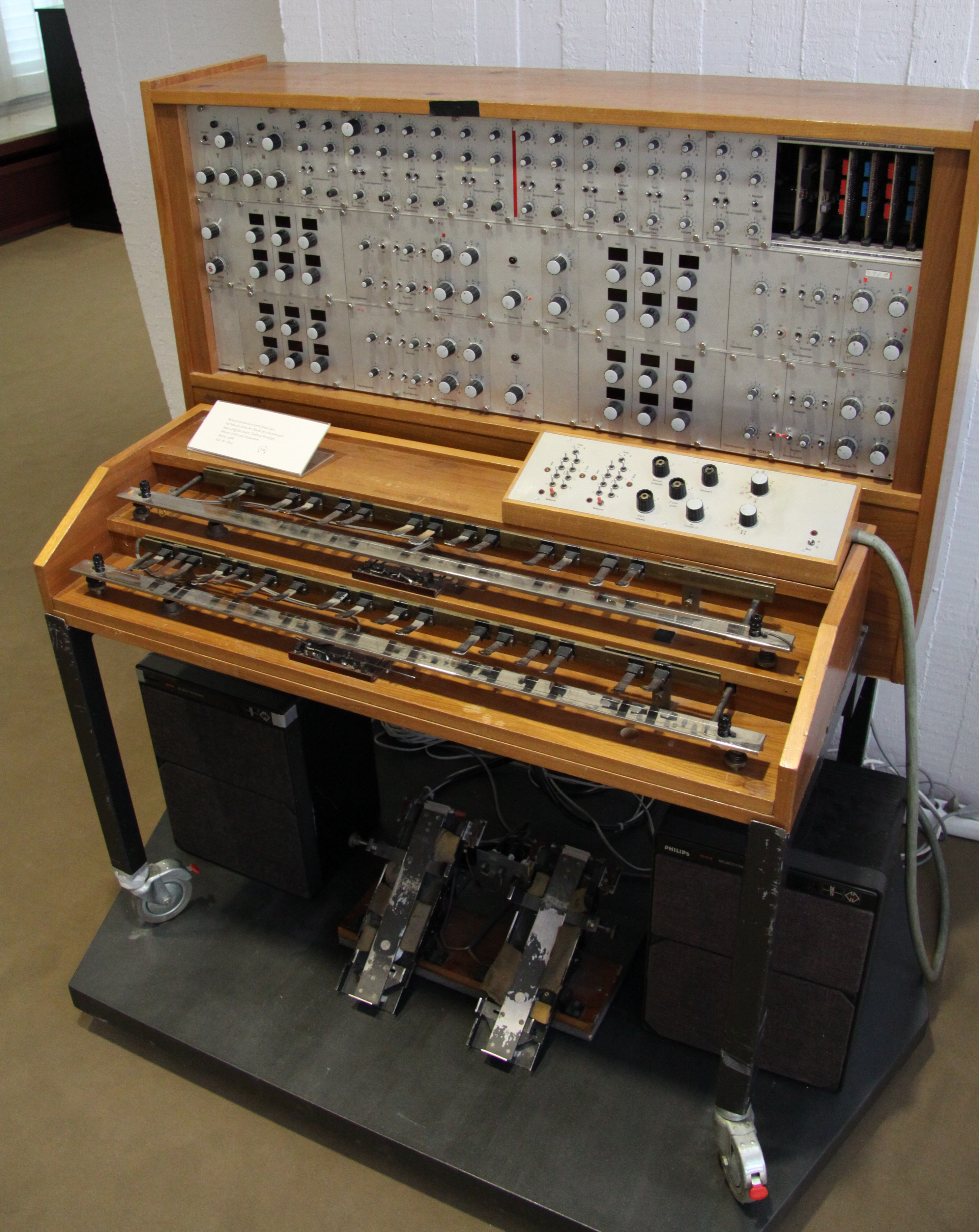 Mixtur-Trautonium (Berlin, 1955) at the Music Instrument Museum, Berlin.